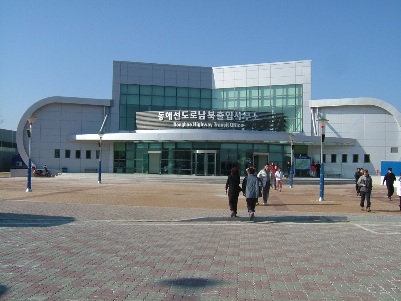 Donghae Highway Transit Office at Goseong county, Gangwon province, Republic of Korea